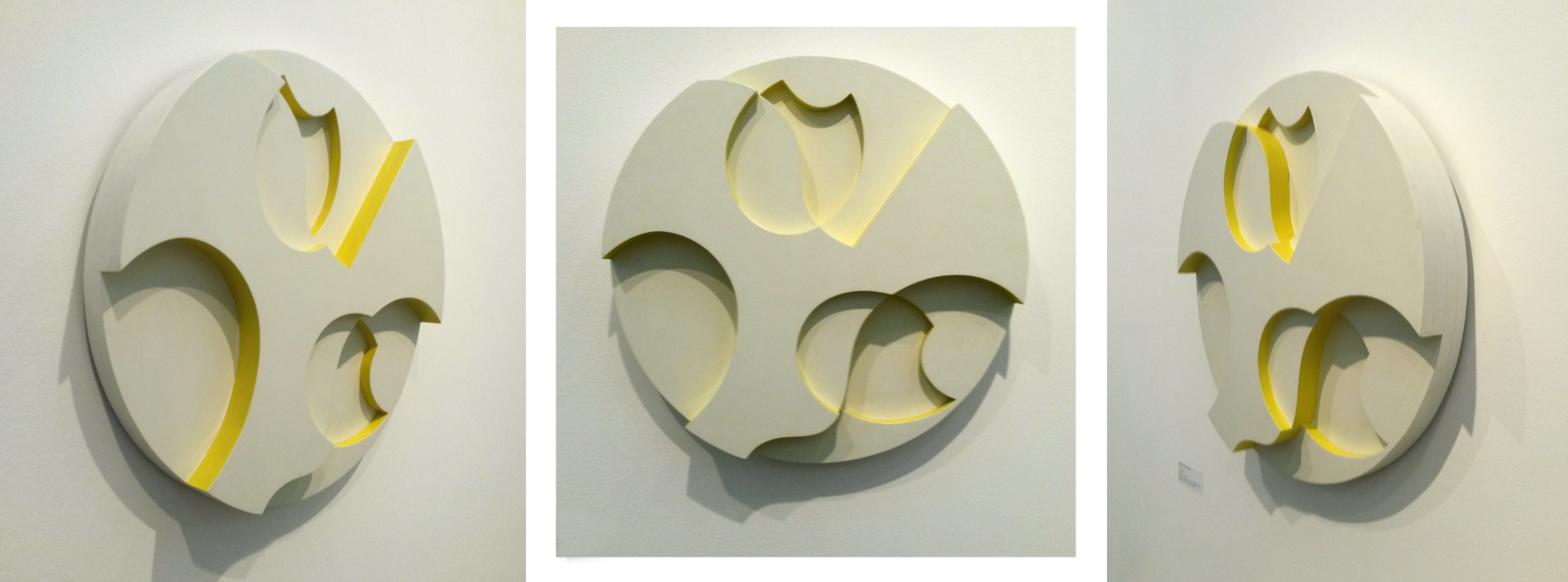 3 views of: Sophie Taeuber-Arp, relief at three levels, 1937 or 1938, painted wood, diameter 60 cm